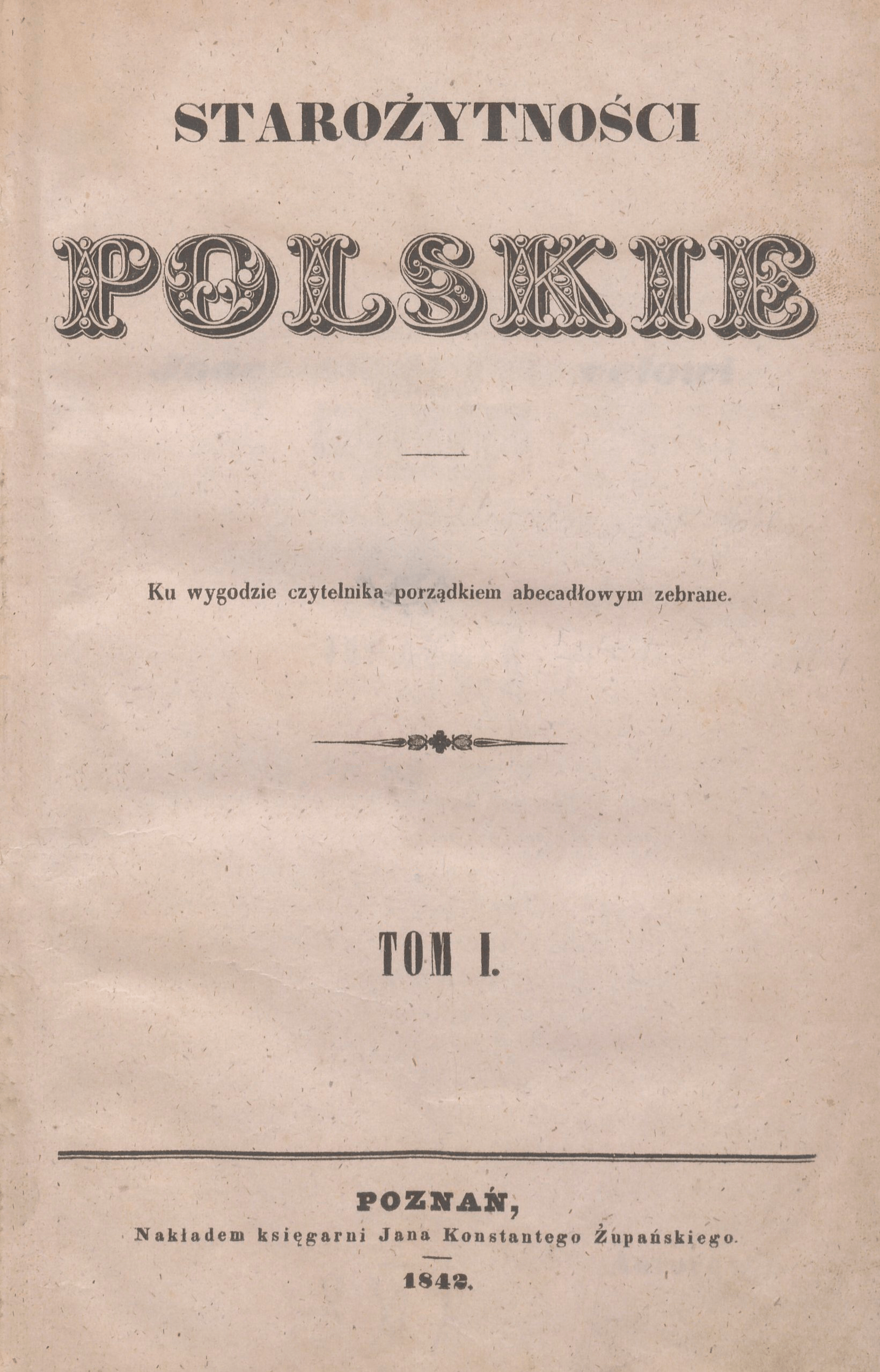 Starożytności polskie.